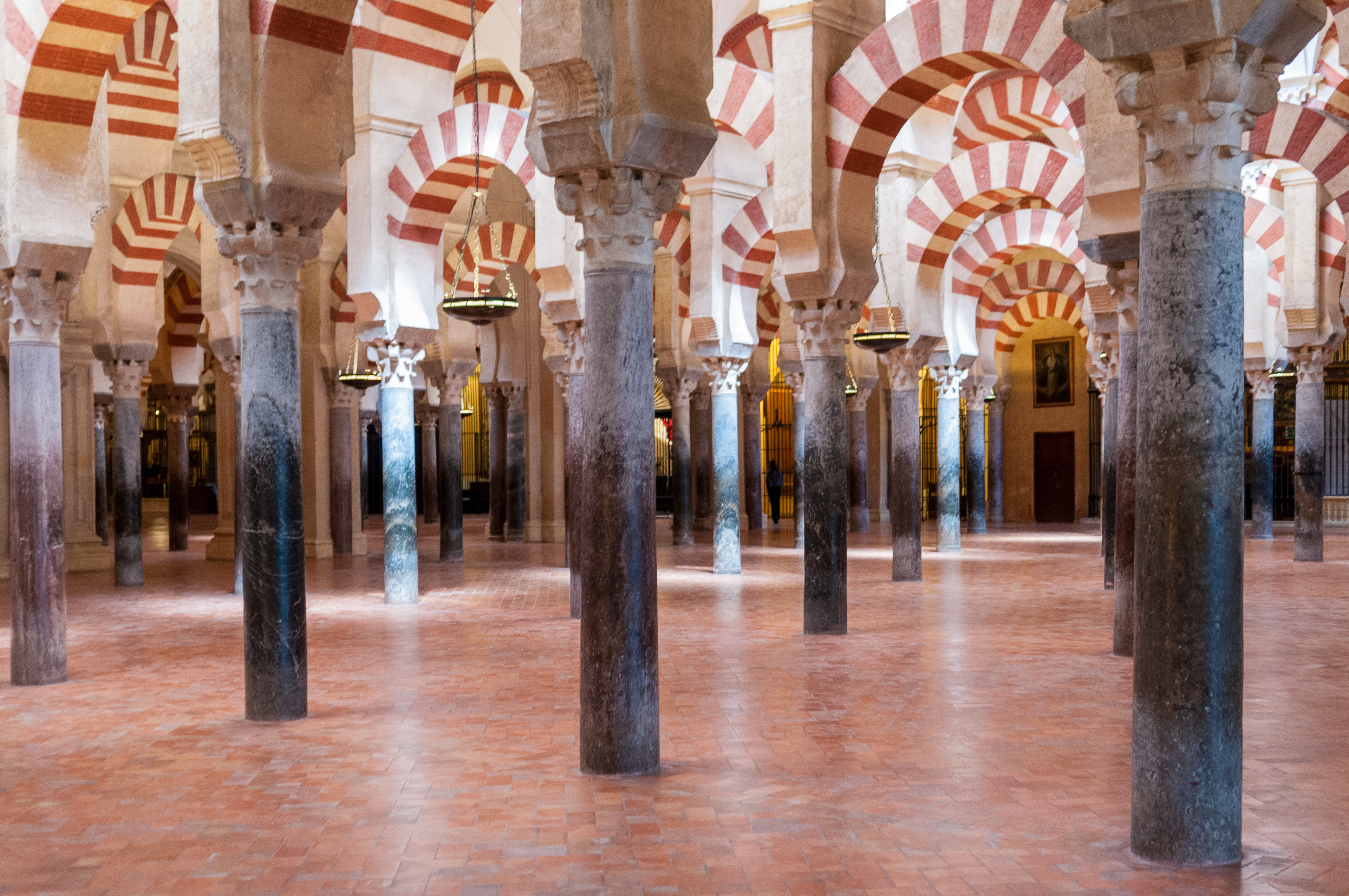 Cathedral of Our Lady of the Assumption), and known by the inhabitants of Córdoba as the Mezquita-Catedral (Mosque–Cathedral), is today a World Heritage Site and the cathedral of the Diocese of Córdoba. It is located in the Andalusian city of Córdoba, Spain. The site was originally a pagan temple, then a Visigothic Christian church, before the Umayyad Moors at first converted the building into a mosque and then built a new mosque on the site. After the Spanish Reconquista, it once again became a Roman Catholic church, with a plateresque cathedral later inserted into the centre of the large Moorish building. The Mezquita is regarded as the one of the most accomplished monuments of Islamic architecture. Cathedral–Mosque of Córdoba. (2012, April 2). In Wikipedia, The Free Encyclopedia. Retrieved 09:09, April 15, 2012, from